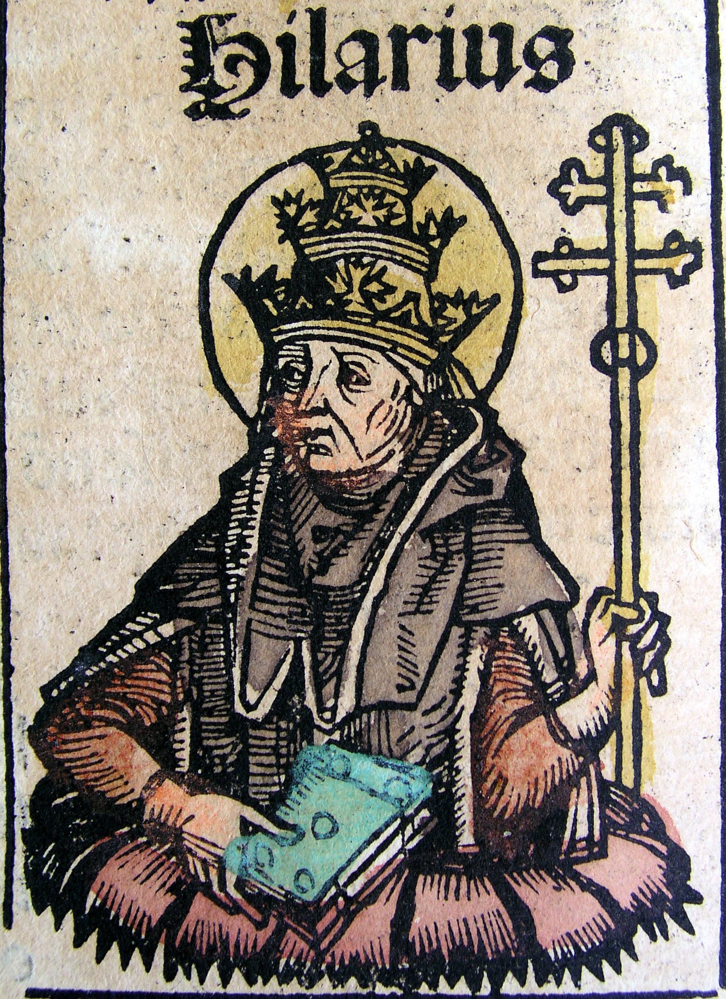 Illustrations from the Nuremberg Chronicle, by Hartmann Schedel (1440-1514)